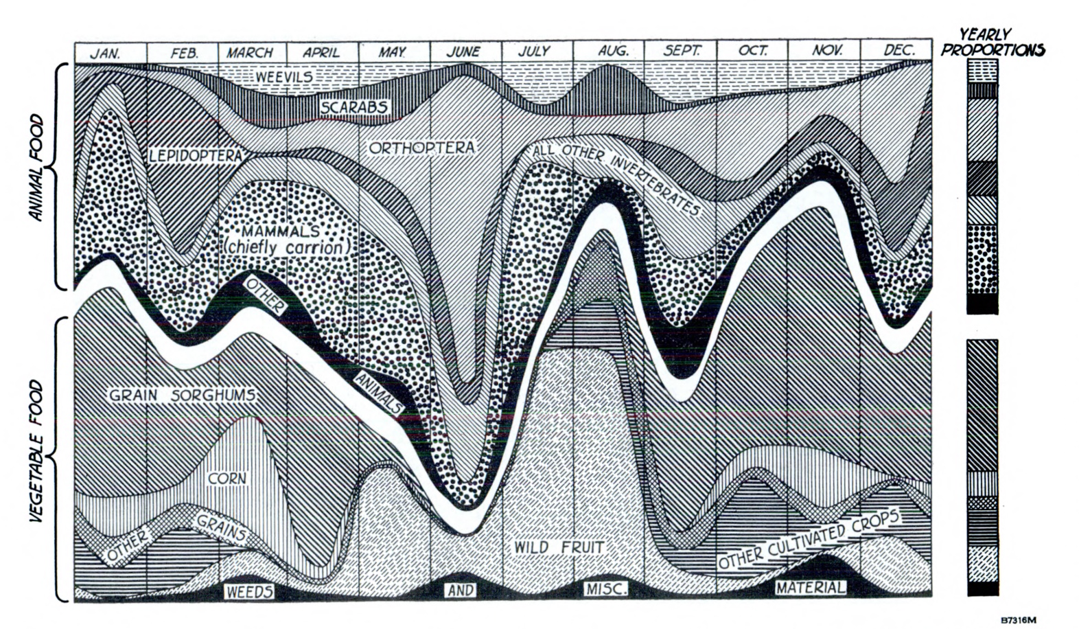 Monthly distribution of food items in proportion to the total diet of White-necked Ravens (Corvus cryptoleucus). Data taken from 707 adult birds.